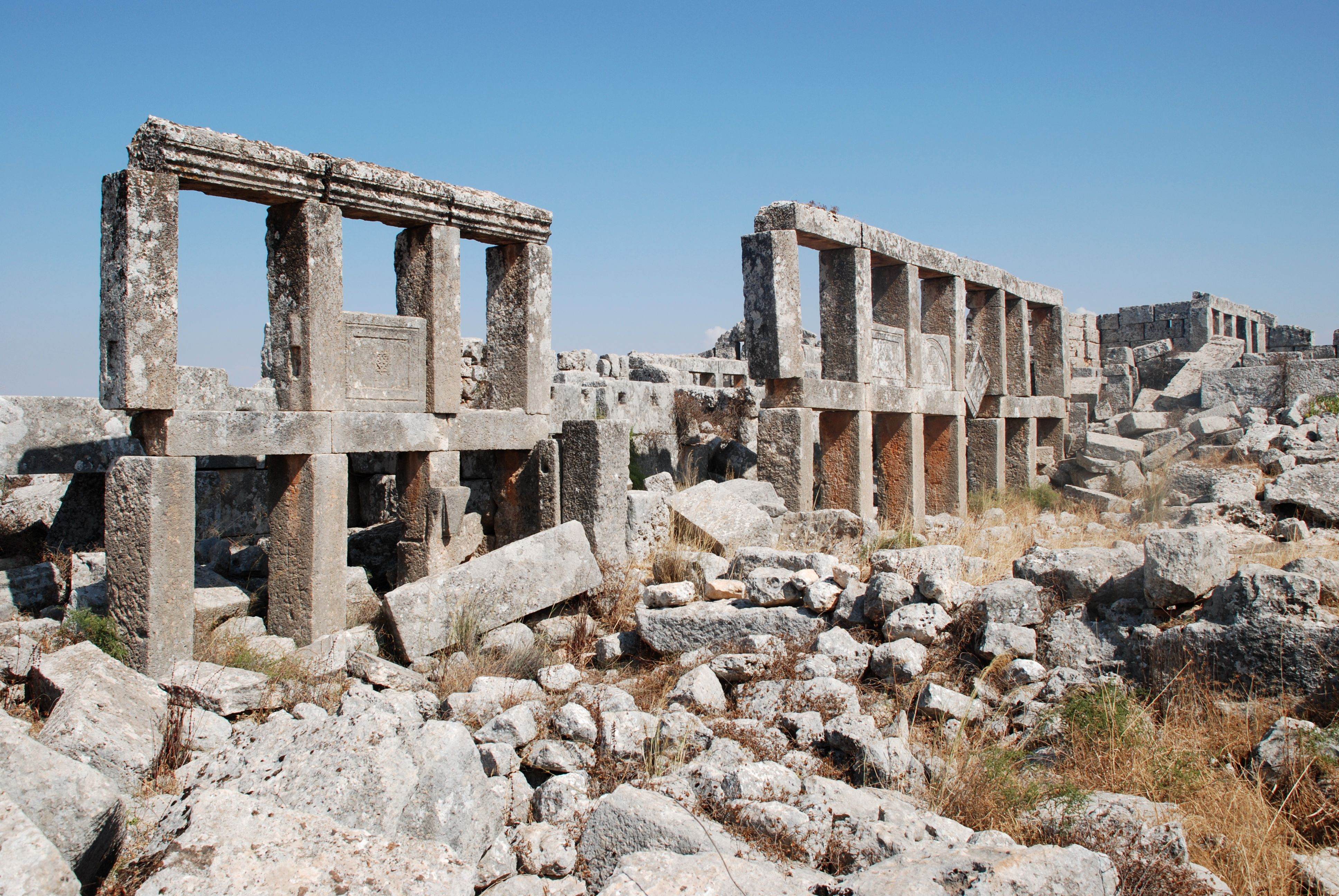 Bauda, dead city in Djebel Barisha, Syria